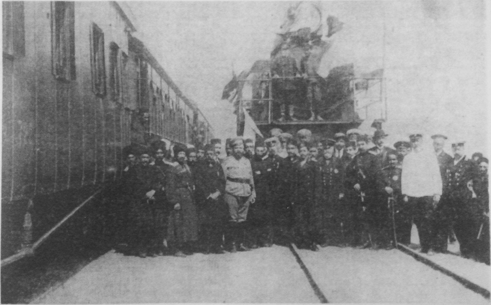 The first Russian train arrived in Tabriz. The ceremony was attended by Crown Prince Mohammad Hassan Mirza, representatives of local authorities, Russian officers and railway workers.